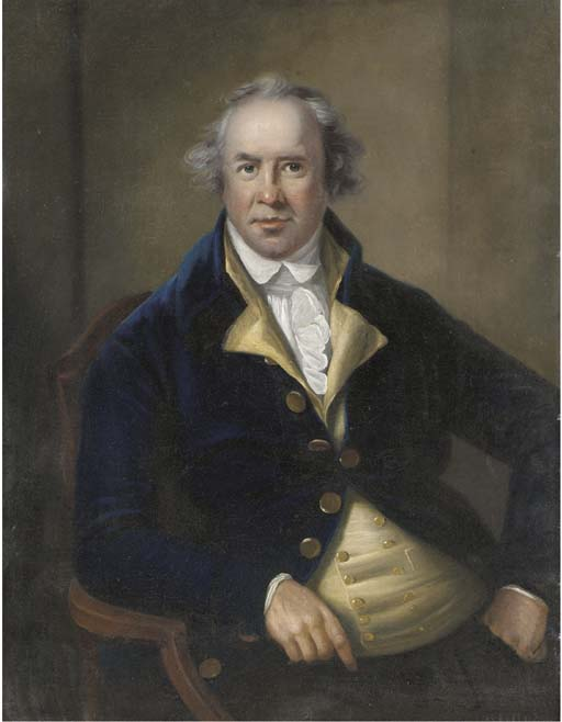 Portrait of a Gentleman, traditionally identified as George James Bruere (died 1780), Governor of Bermuda 1764-1780.